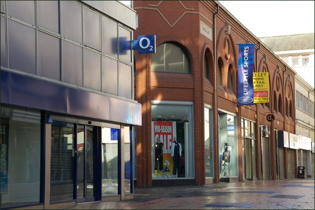 Castle Lane, Belfast. Castle Lane is a pedestrianised street running from Arthur Square 563970 to Donegall Place. Mostly occupied by national multiples, it was once home to Leitch's camera shop and the British Railways booking office. Callender Street is on the left.